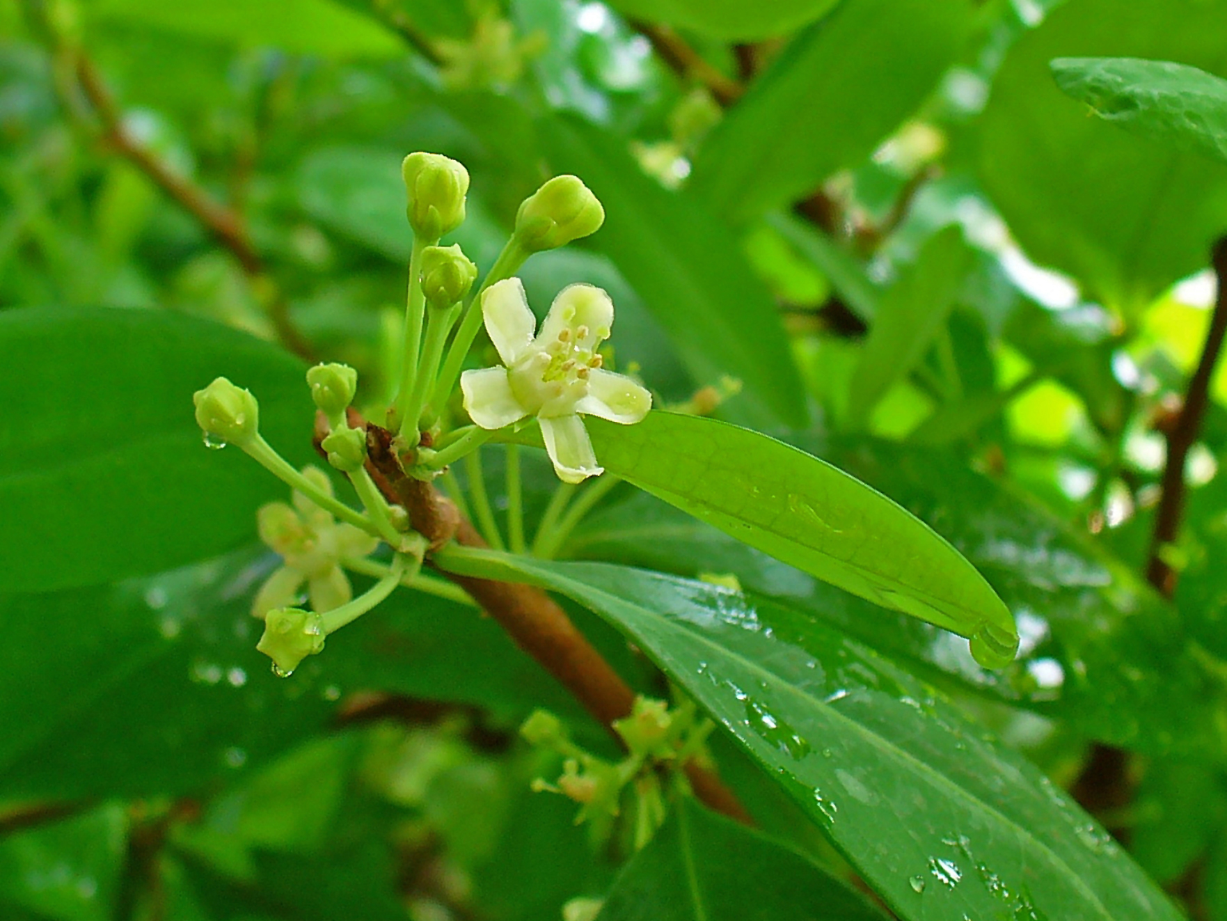 Erythroxylum coca, Erythroxylaceae, Coca, flower. The alkaloid cocaine is used in homeopathy as remedy: Cocainum purum (Cocain-p.)